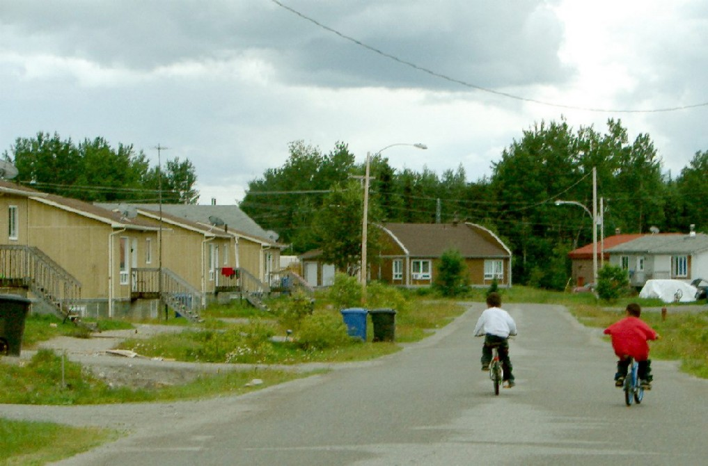 Lac-Simon First Nations Reserve, Quebec, Canada